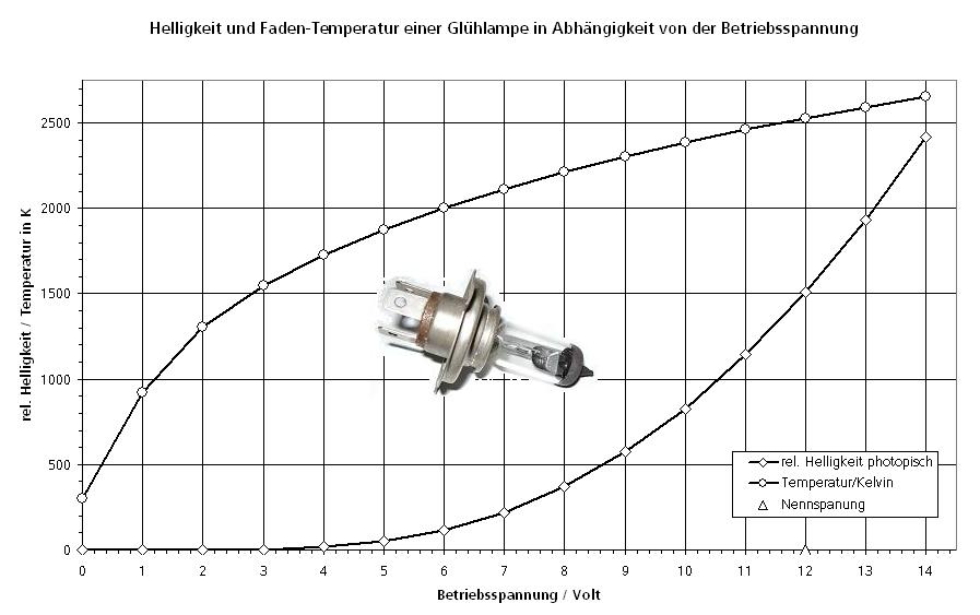 brightness and filament temperature of an incandescent lamp / rel. Helligkeit und Glühfadentemperatur einer Glühlampe 12V 60 Watt